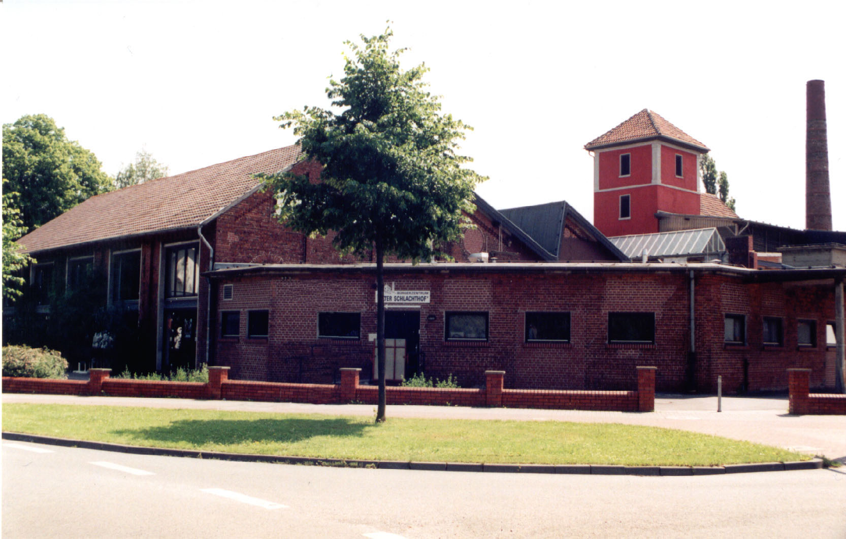 Frontview of "Kulturhaus Alter Schlachthof" e.V. in Soest, Germany